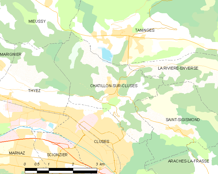 Map of French municipality Châtillon-sur-Cluses